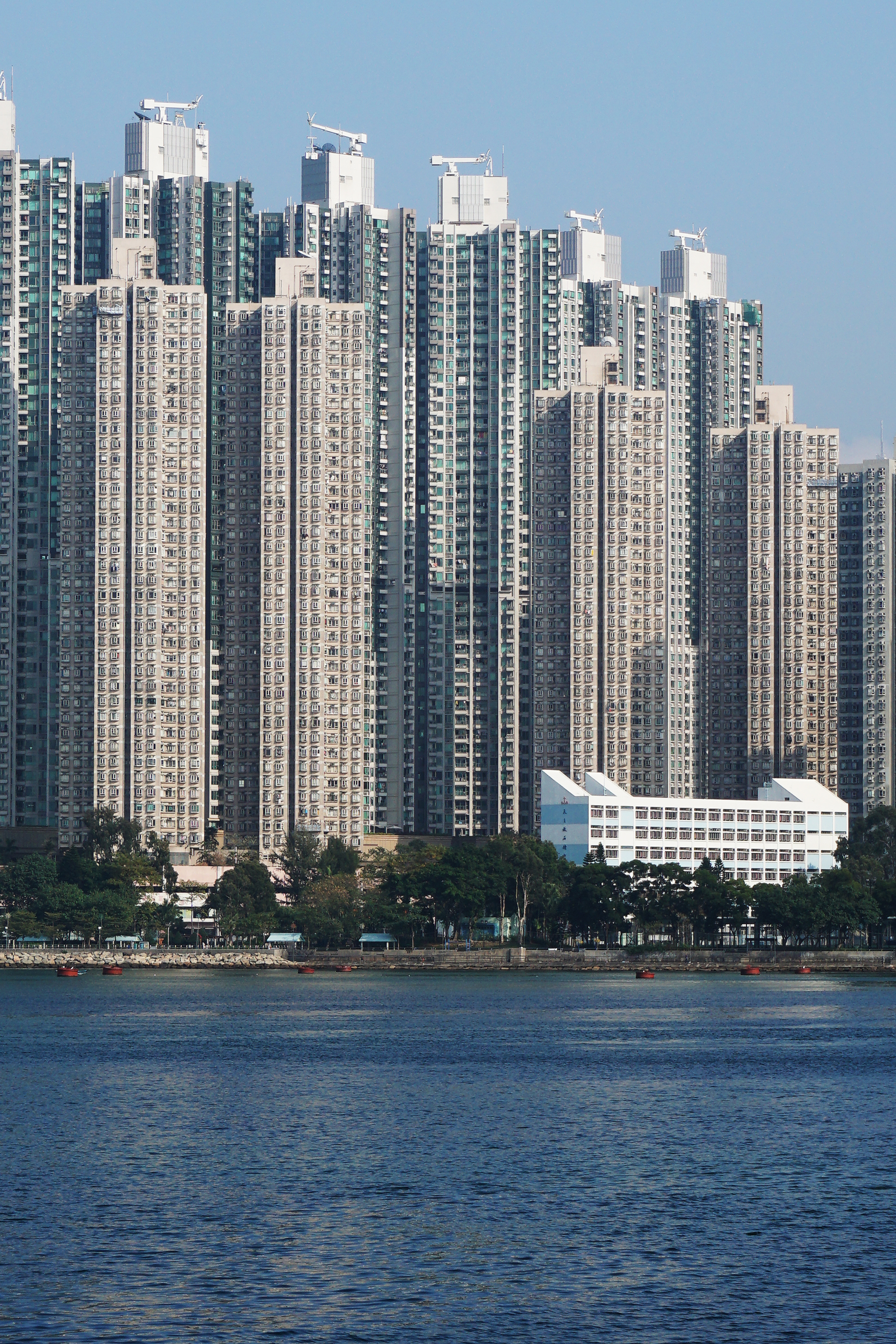 Waterside Plaza in Tsuen Wan, Hong Kong.